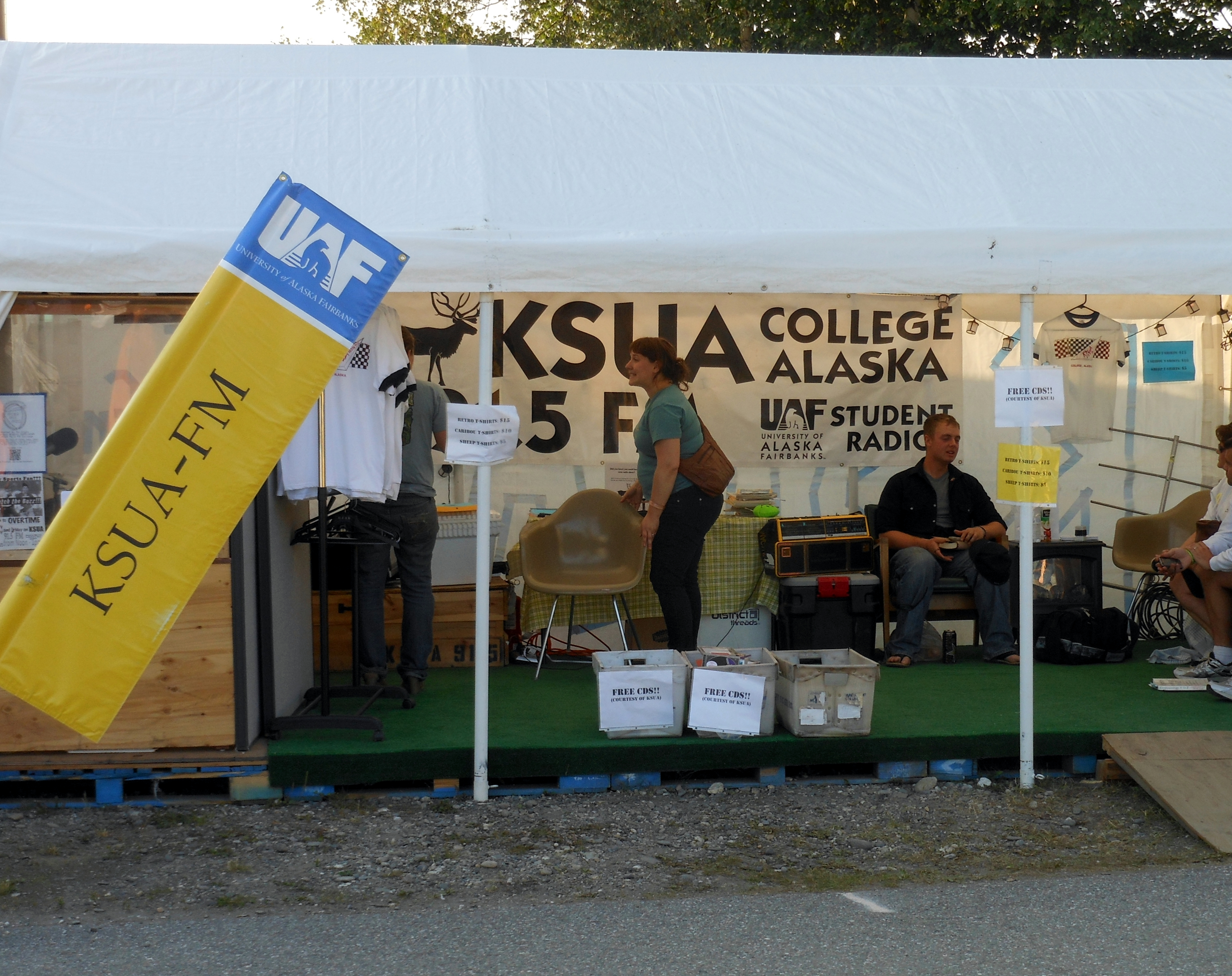 Booth at the 2012 Tanana Valley State Fair promoting KSUA, the student radio station at the University of Alaska Fairbanks. A few people are chatting inside the booth. Various promotional items are sold or given away, including bins of compact discs seen just below center. These are sent to the station by record labels and A&R people and are routinely given away to the public by the station.